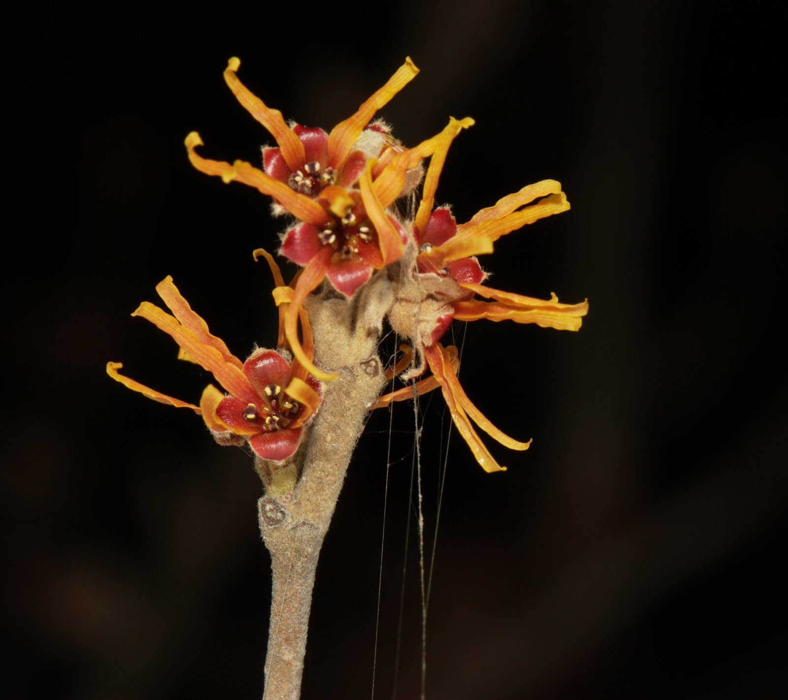 Hamamelis mollis (Chinese Witch Hazel) at Royal Botanic Gardens Melbourne